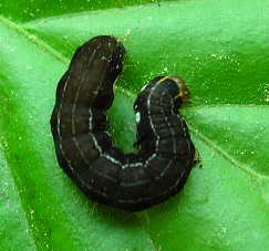 Caterpillar of Eupsilia transversa Location: The Netherlands - Langbroek - Langbroeker Wetering